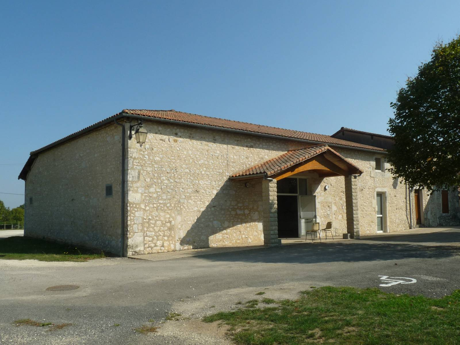 community hall of Eymouthiers, Charente, SW France